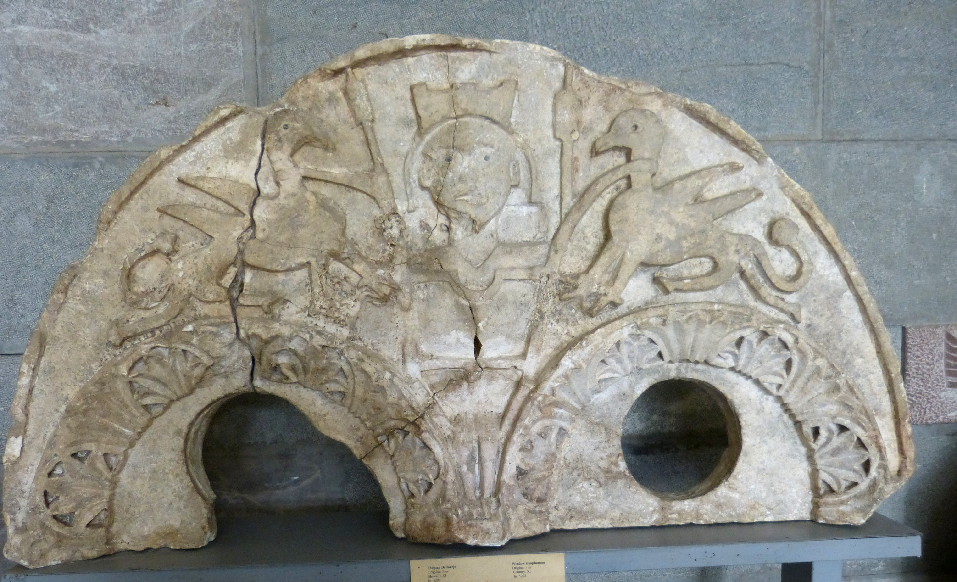 Korçë ( Albania ). National Museum of Medieval Art - Lapidarium: Biforum ( 12th century ) with relief of the aerial flight of Alexander the Great, from Saint Nicholas church in Kurjan.